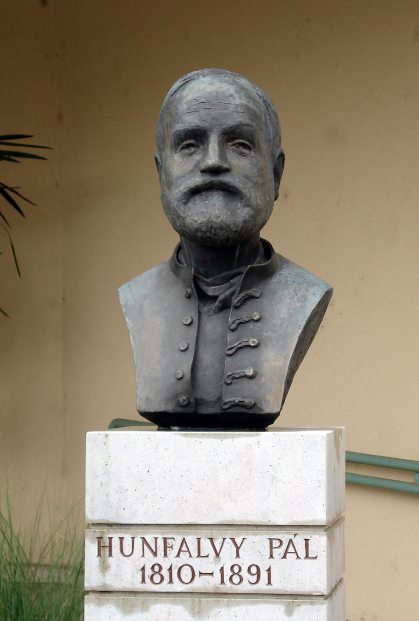 Péter Szanyi: Pál Hunfalvy. Bronze bust, Diósgyőr High School main entrance, Miskolc, Diósgyőr, Hungary.